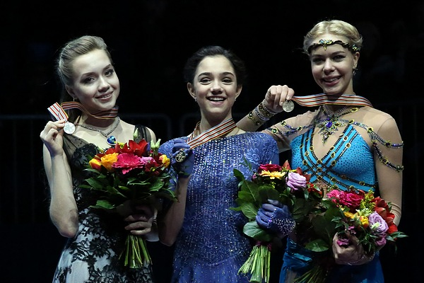 The ladies podium at the 2016 European Championships. From left: Elena Radionova (2nd); Evgenia Medvedeva(1st); Anna Pogorilaya(3rd).